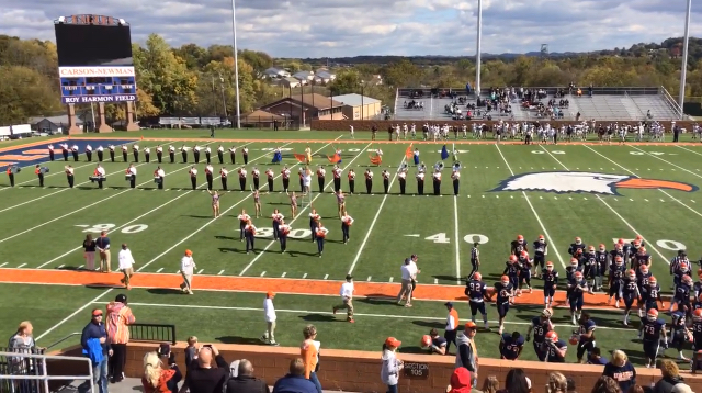 The current field at Burke-Tarr Stadium taken in 2016 and located in Jefferson City, Tennessee.